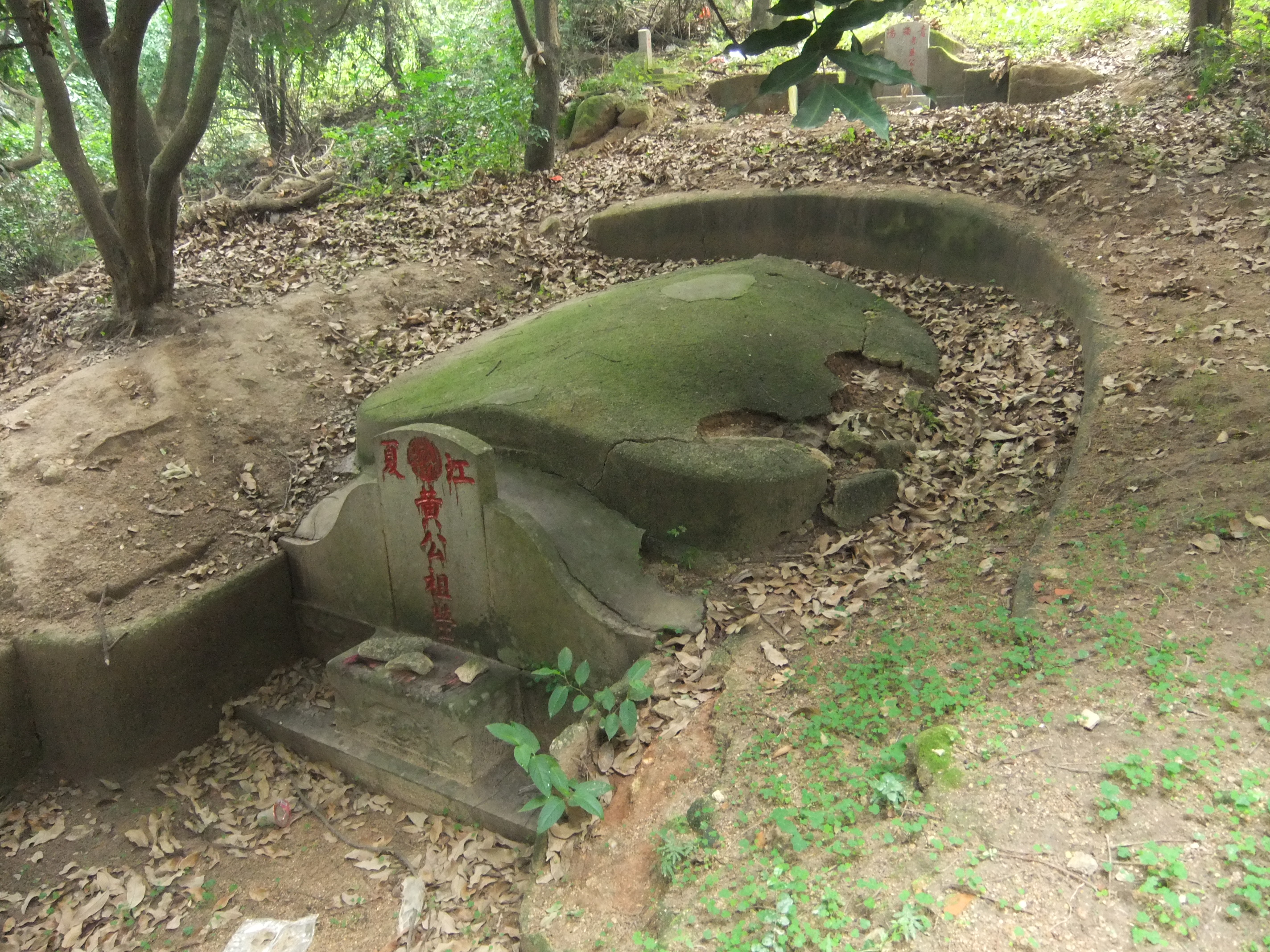 Tombs in Lingshan Islamic Cemetery (Lingshan Park) in Quanzhou. Some are classic Fujian "turtle-back tombs"; others, of a hybrid variety, with the central "turtle back" replaced with an Islamic-style sarcophagus. And there are some tombs that are just a small earth hill...